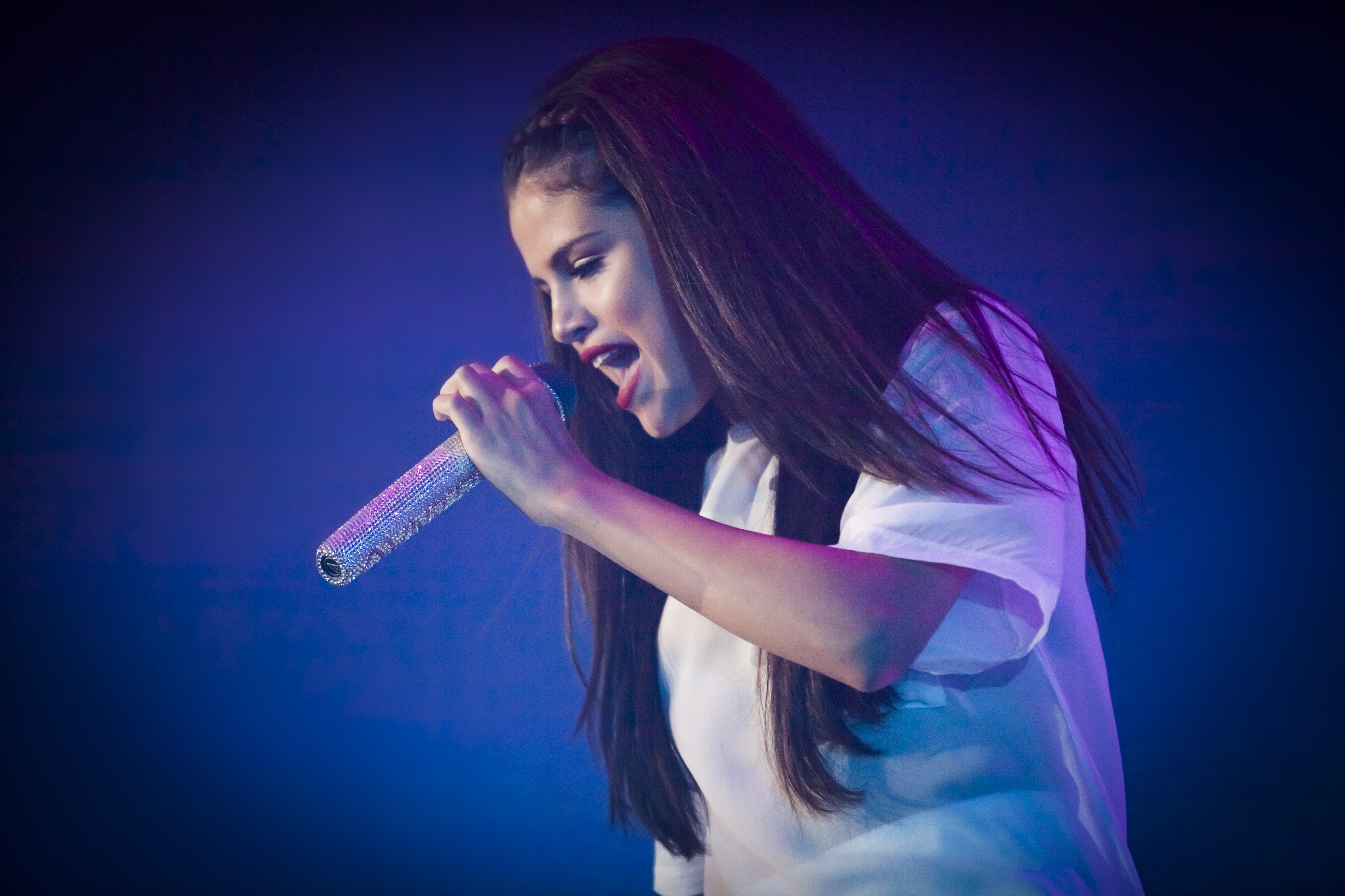 Selena Gomez during the Stars Dance Tour, Norway, september 2013.